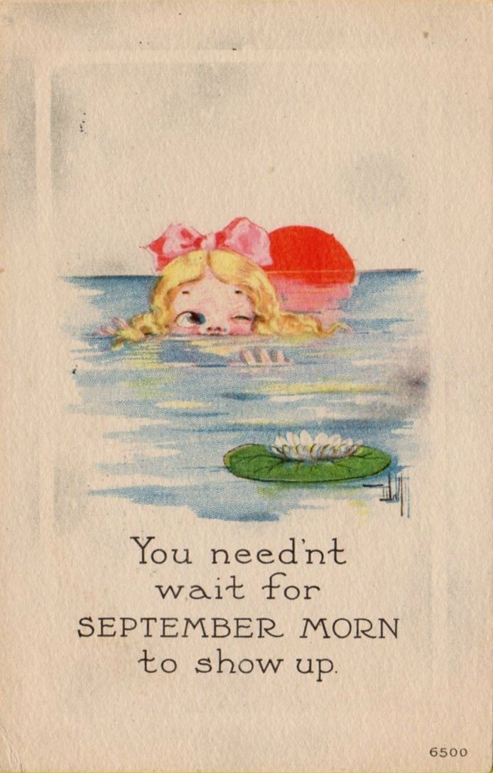 "You needn't wait for September Morn to show up". A 1910s postal card drawing on the popularity of Chabas' Sunday Morn. Postmarked 1914.